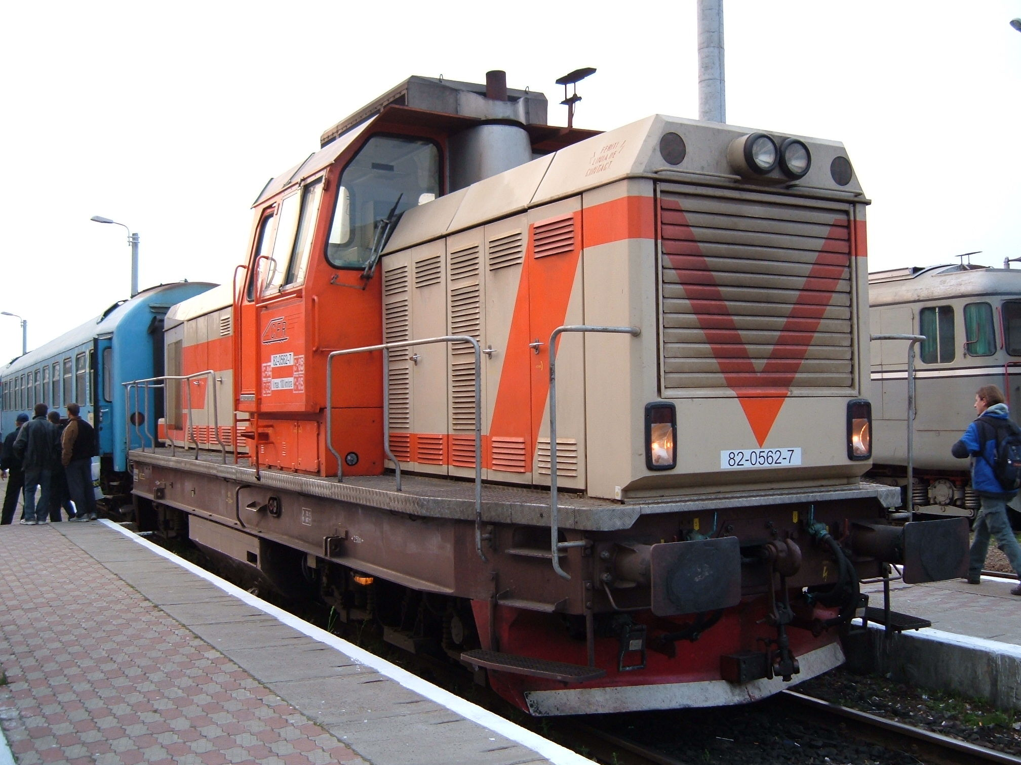 CFR Class 82 locomotive in Târgovişte station. Park number 82-0562-7